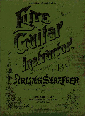 Cover of the book, Elite Guitar Instructor, by Arling Shaeffer.